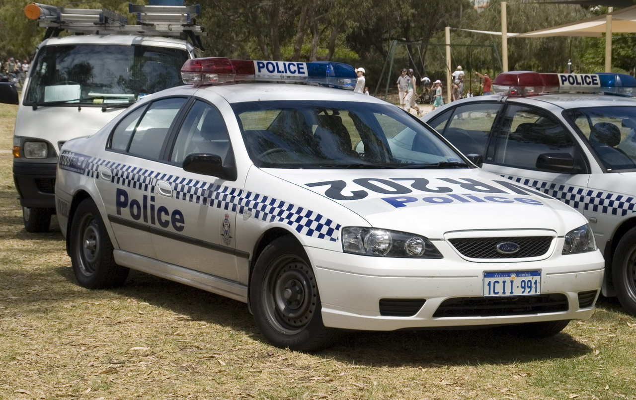 Western Australia Police VR202 Fremantle District - Rockingham station traffic sedan.